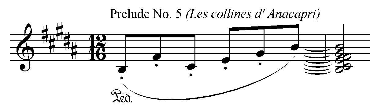 Debussy Le collines d'Anacapri